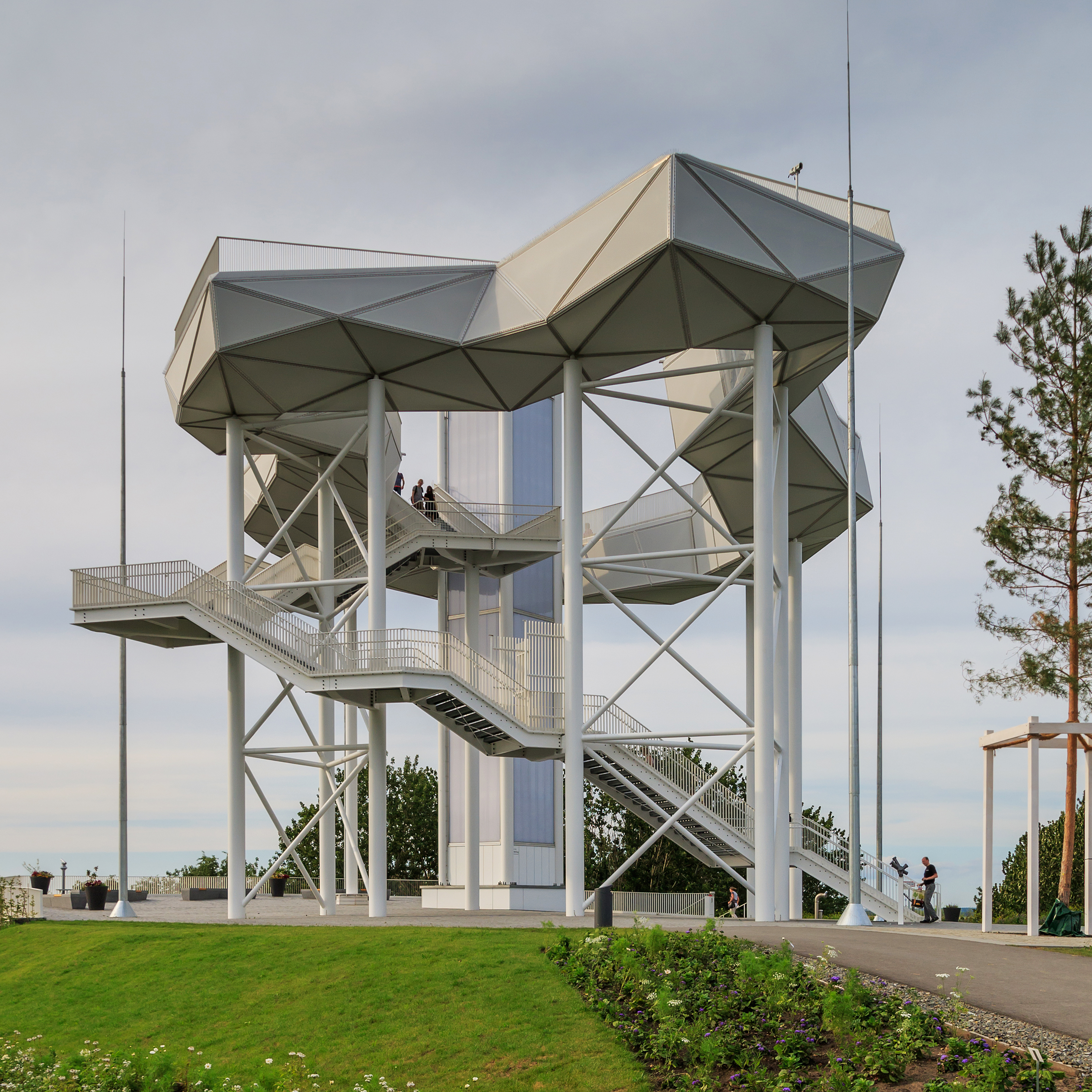 Kienberg Marzahn and surroundings (IGA 2017 area) in Berlin (Germany)